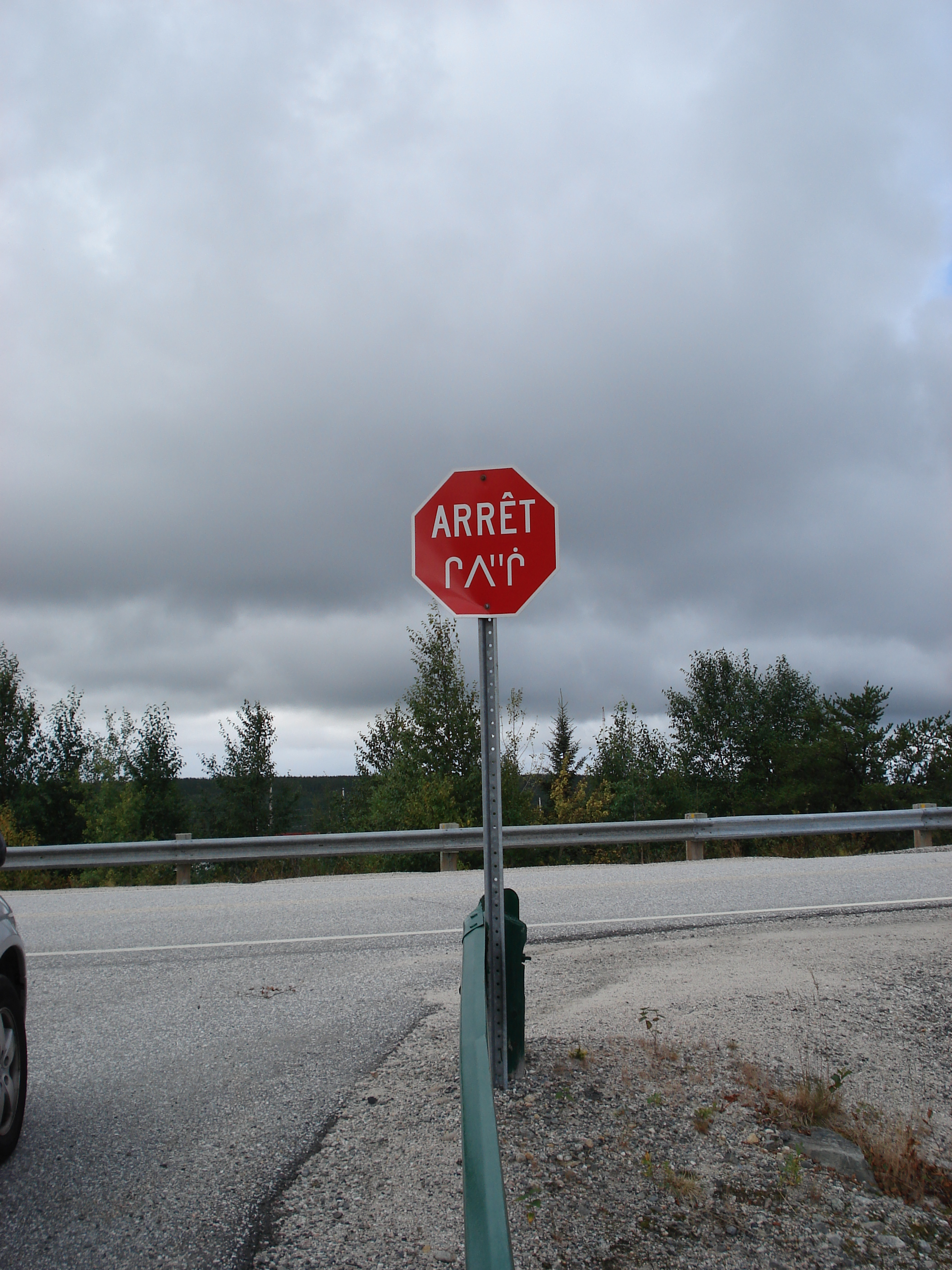 Bilingual stop sign (French and Cree) before taking the Route de la Baie James at km 257.